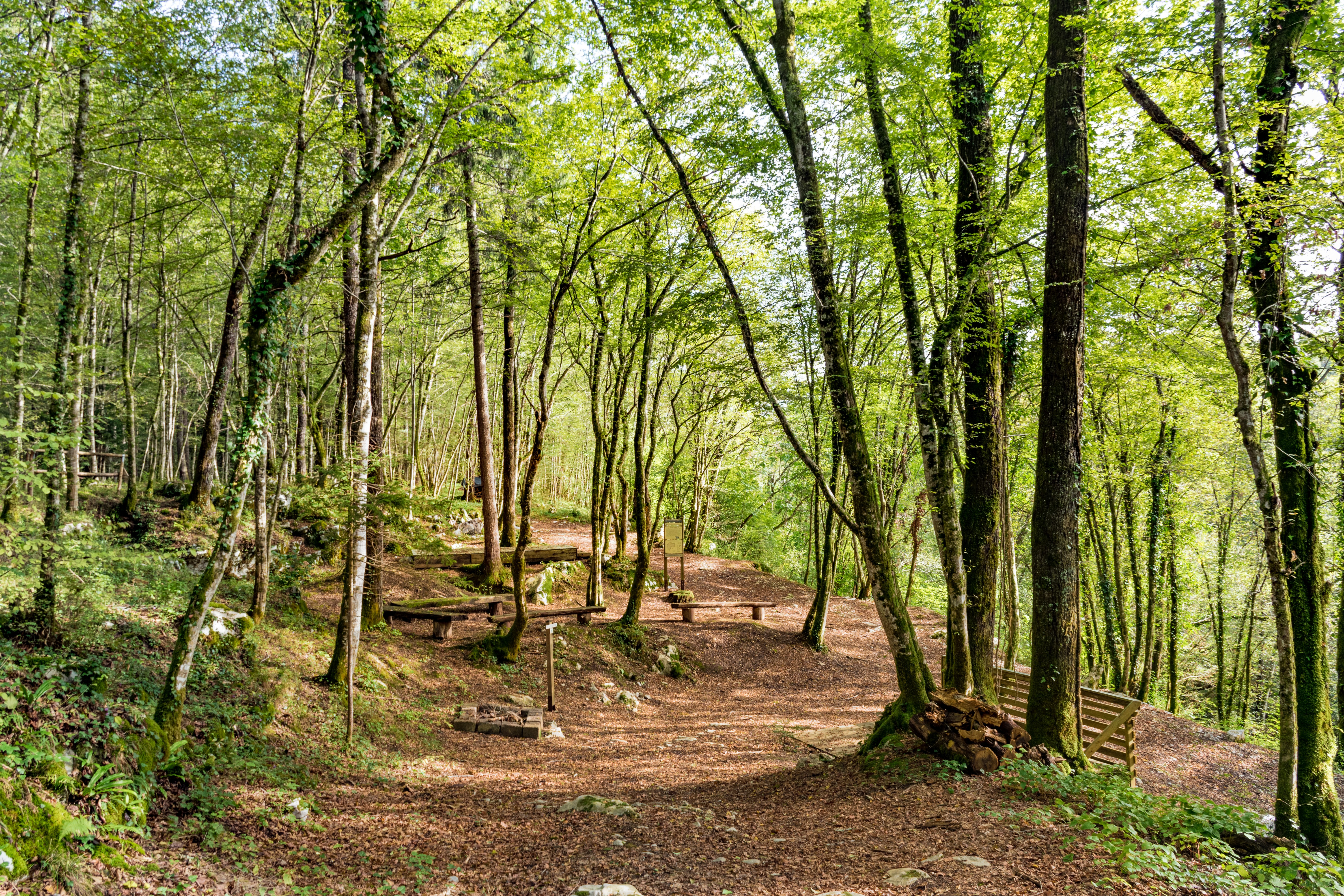 This media shows a cultural heritage object of Slovenia with the EŠD number: 9754